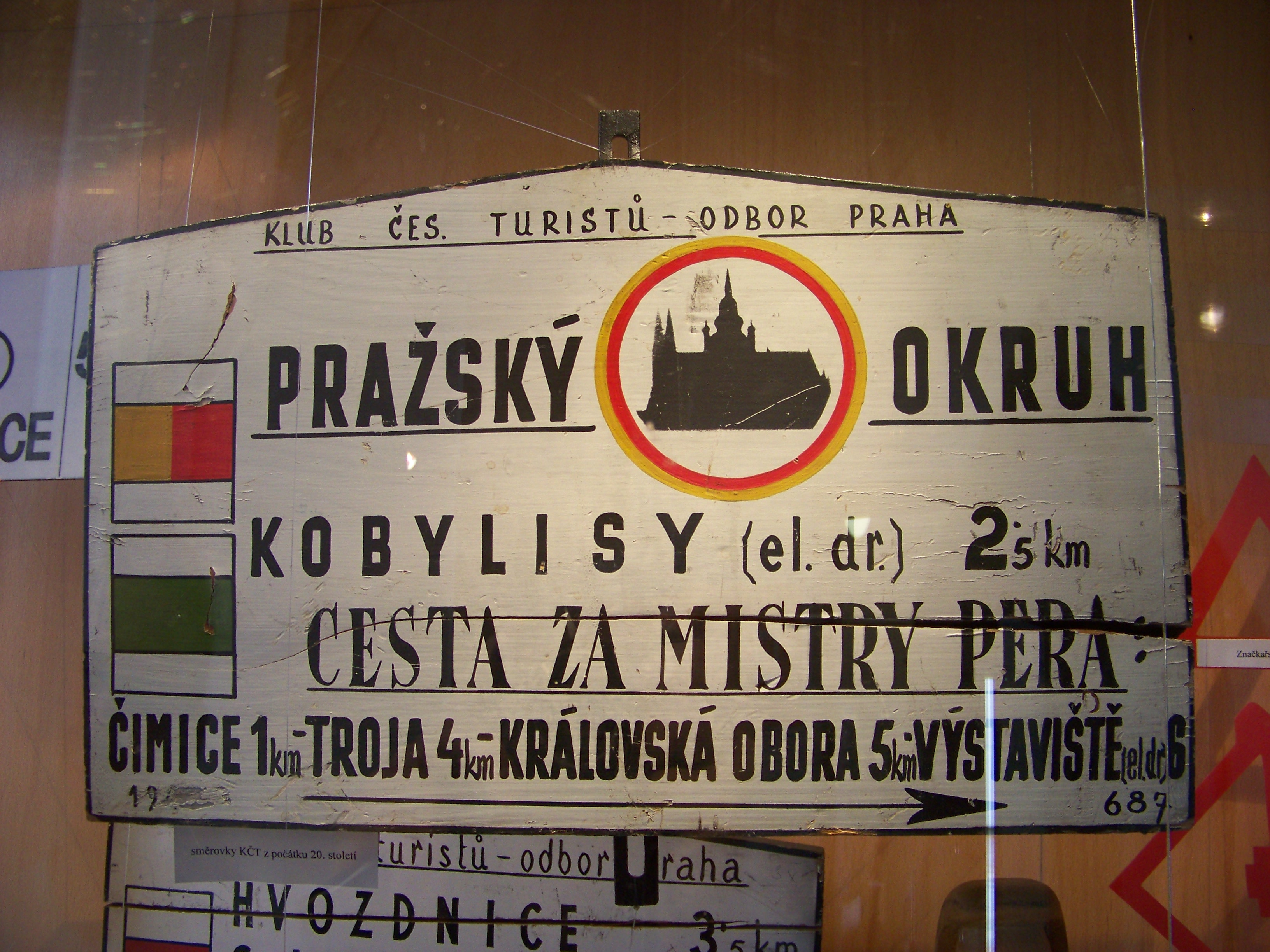 A walking fingerpost. An exhibit of the Tourism Museum in Bechyně, Tábor District, South Bohemian Region, the Czech Republic, former synagogue in Široká street. Object location49° 17′ 47.8″ N, 14° 28′ 09.5″ E